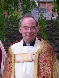 Revd David McGladdery, vicar of Monmouth, Wales (left); Rt Revd Dominic Walker, Bishop of Monmouth (centre); and Ven Richard Pain, Archdeacon of Monmouth (right)